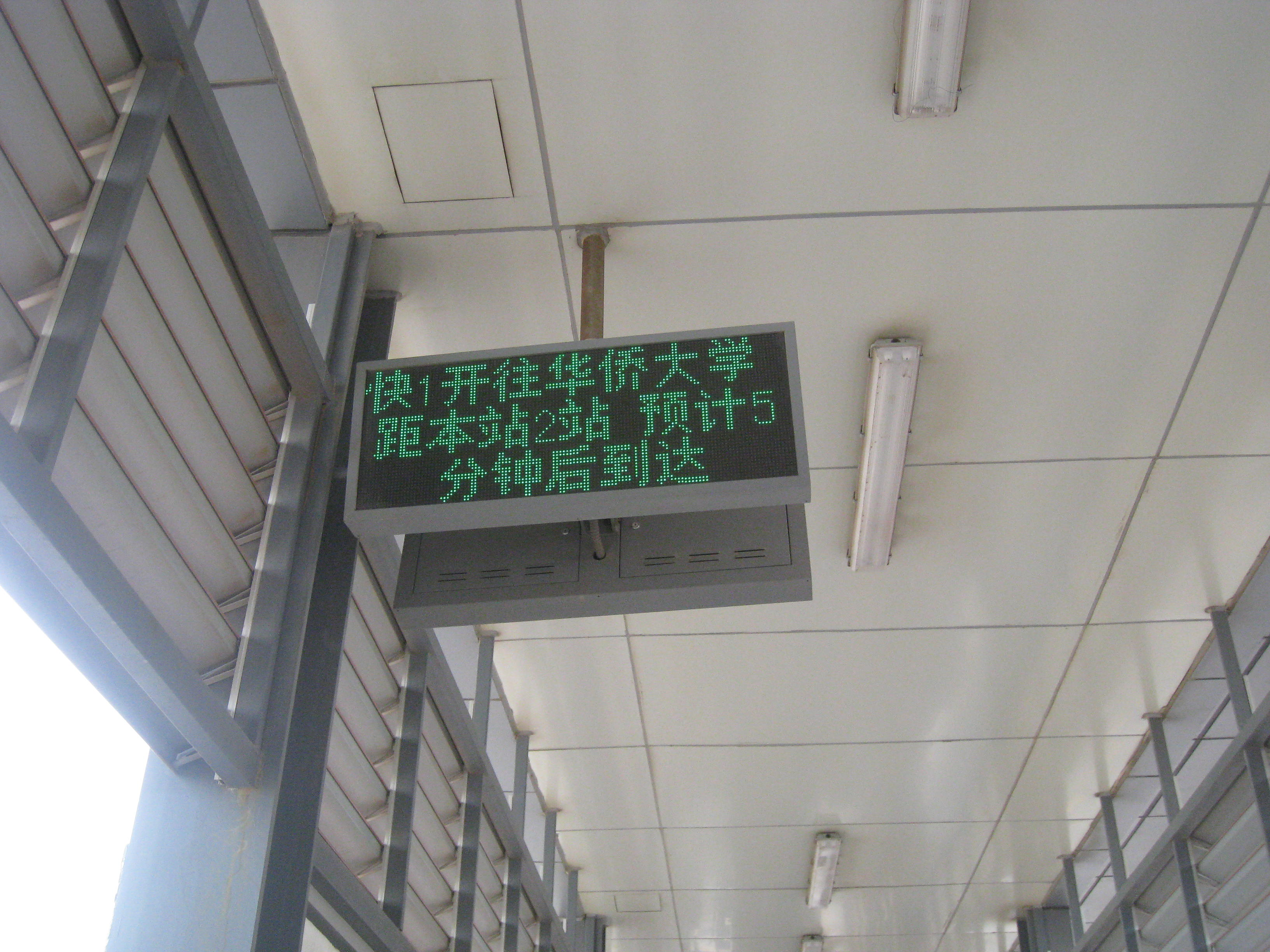 Xiamen BRT Info